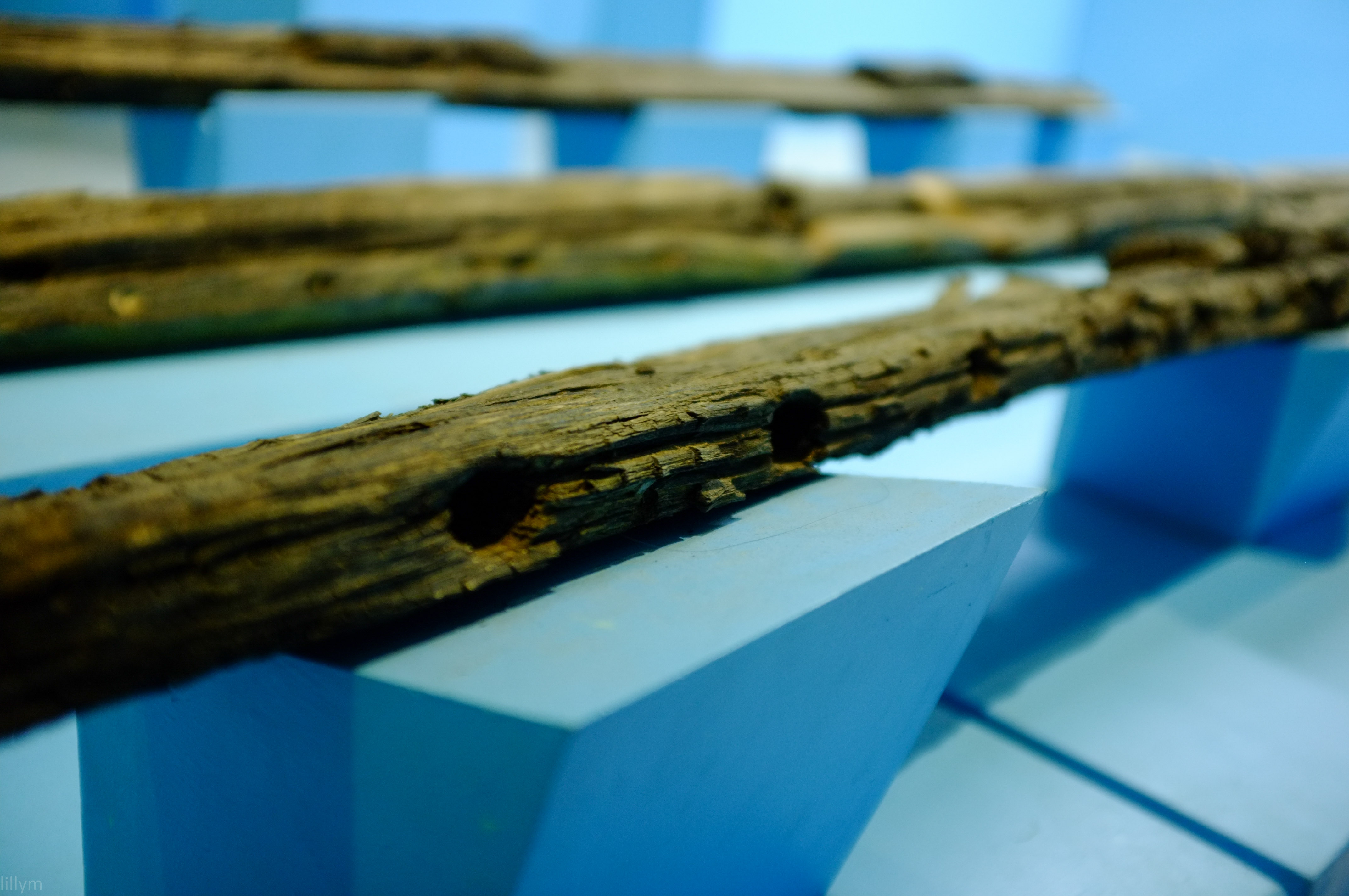 Planks of the Butuan balangay in the Balangay Shrine Museum